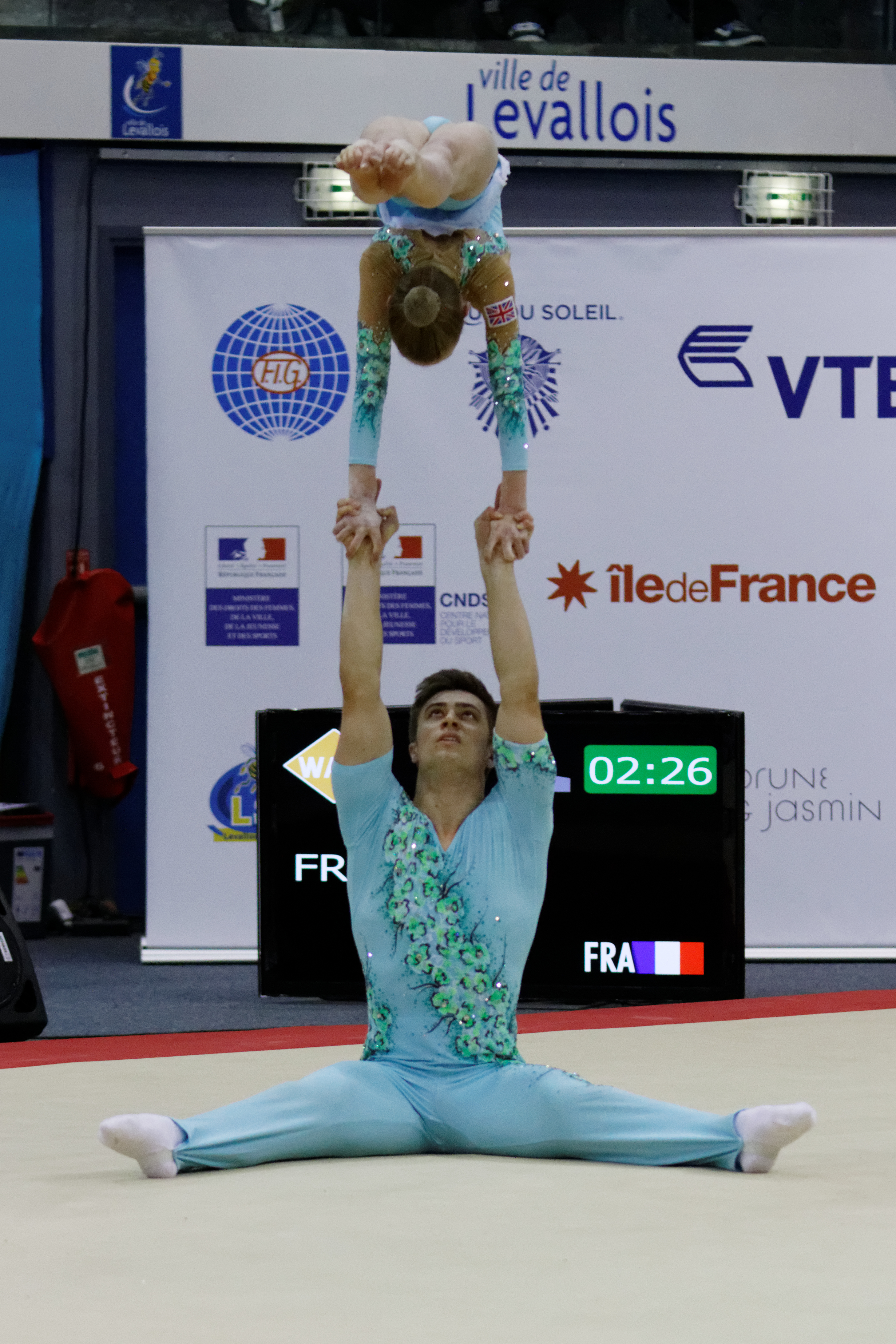 2014 Acrobatic Gymnastics World Championships, 10th-12 July, Levallois-Perret, France. Qualifications: mixed pair. Great Britain.